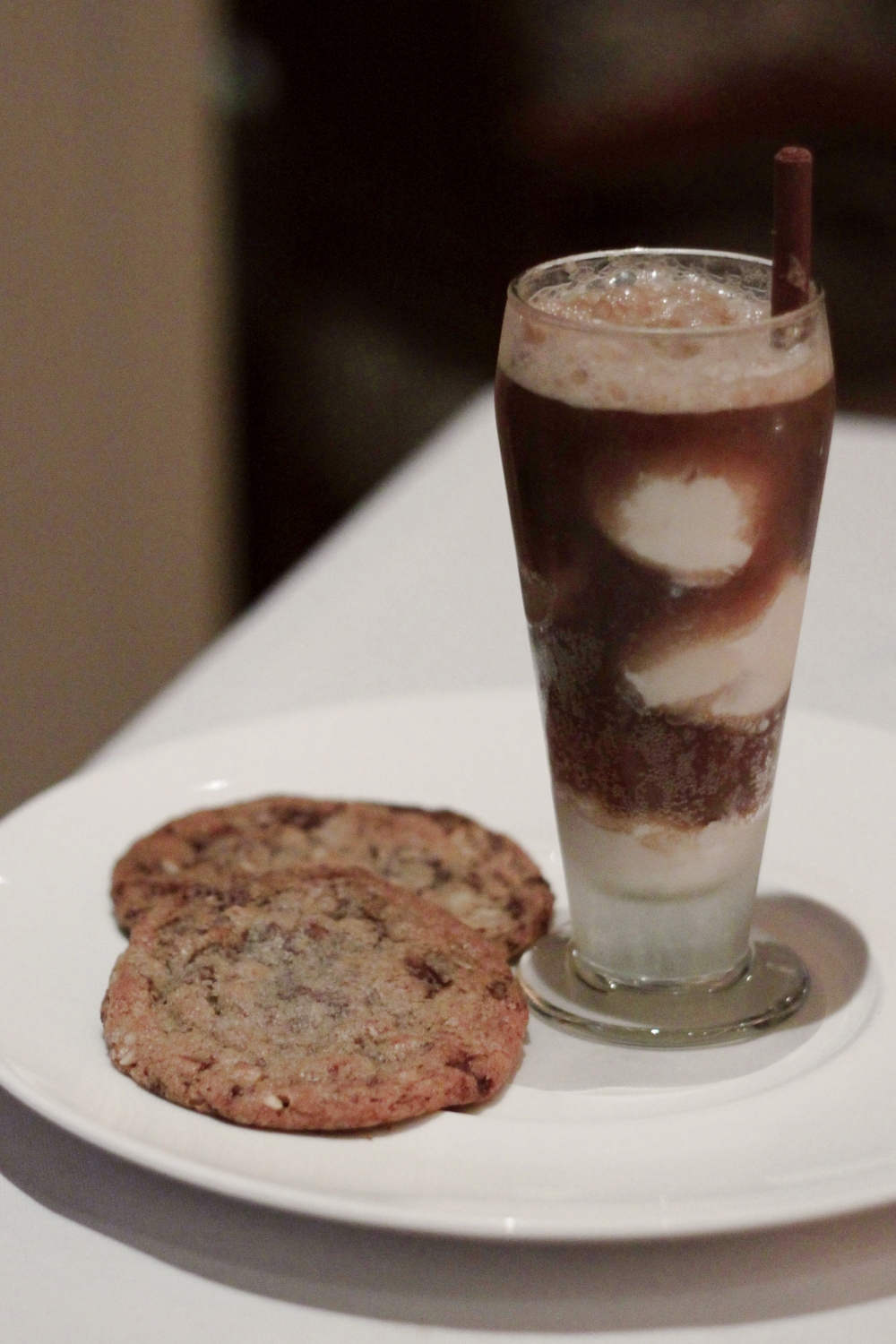 Dessert at Michael Mina in Las Vegas